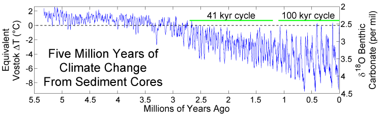 reconstruction of the past 5 million years of climate history, based on oxygen isotope fractionation (serving as a proxy for the total global mass of glacial ice sheets). See the discussion below for a summary of the methods and models used. Note that in 2010, User:SeL media switched the orientation of the time axis and the vertical axes, apparently without discussion, and some descriptions of the image may refer to the older version, resulting in confusion of 'right' and 'left' in the image.